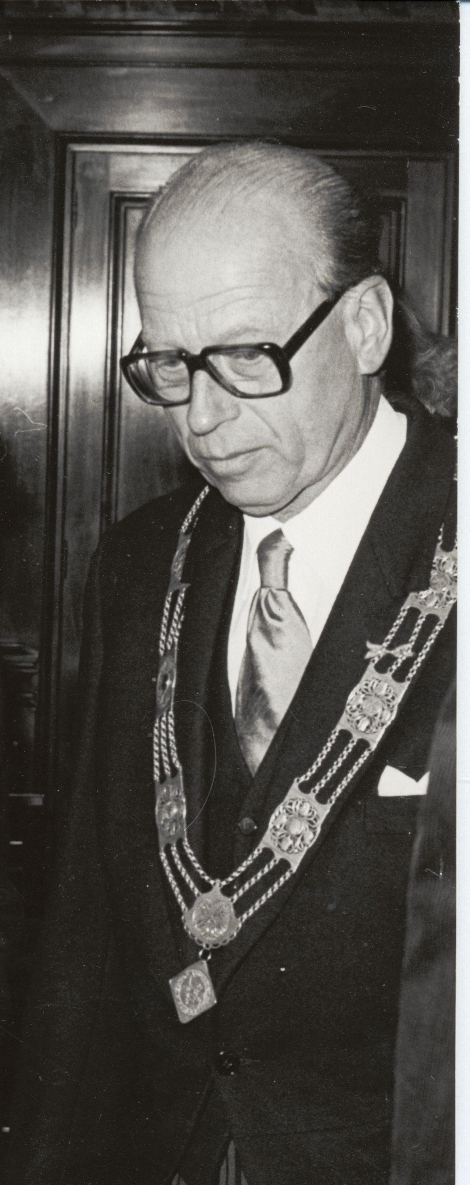 Leiden Mayor A.J. Vis, congratulating honorary citizen Herman Kleibrink (Leiden, 20 Oct. 1979)